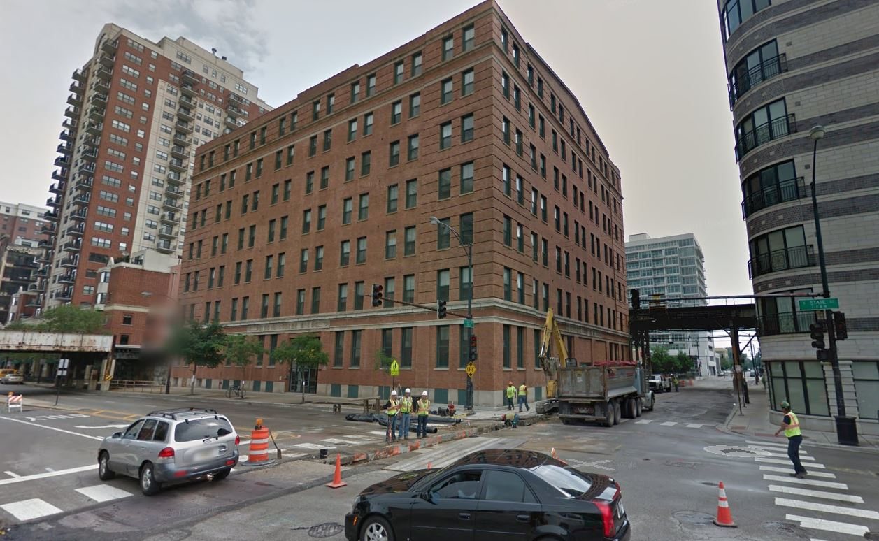 Old Siegel-Cooper Warehouse, located at 16th & State St in Chicago. It has since been converted to loft apartments.